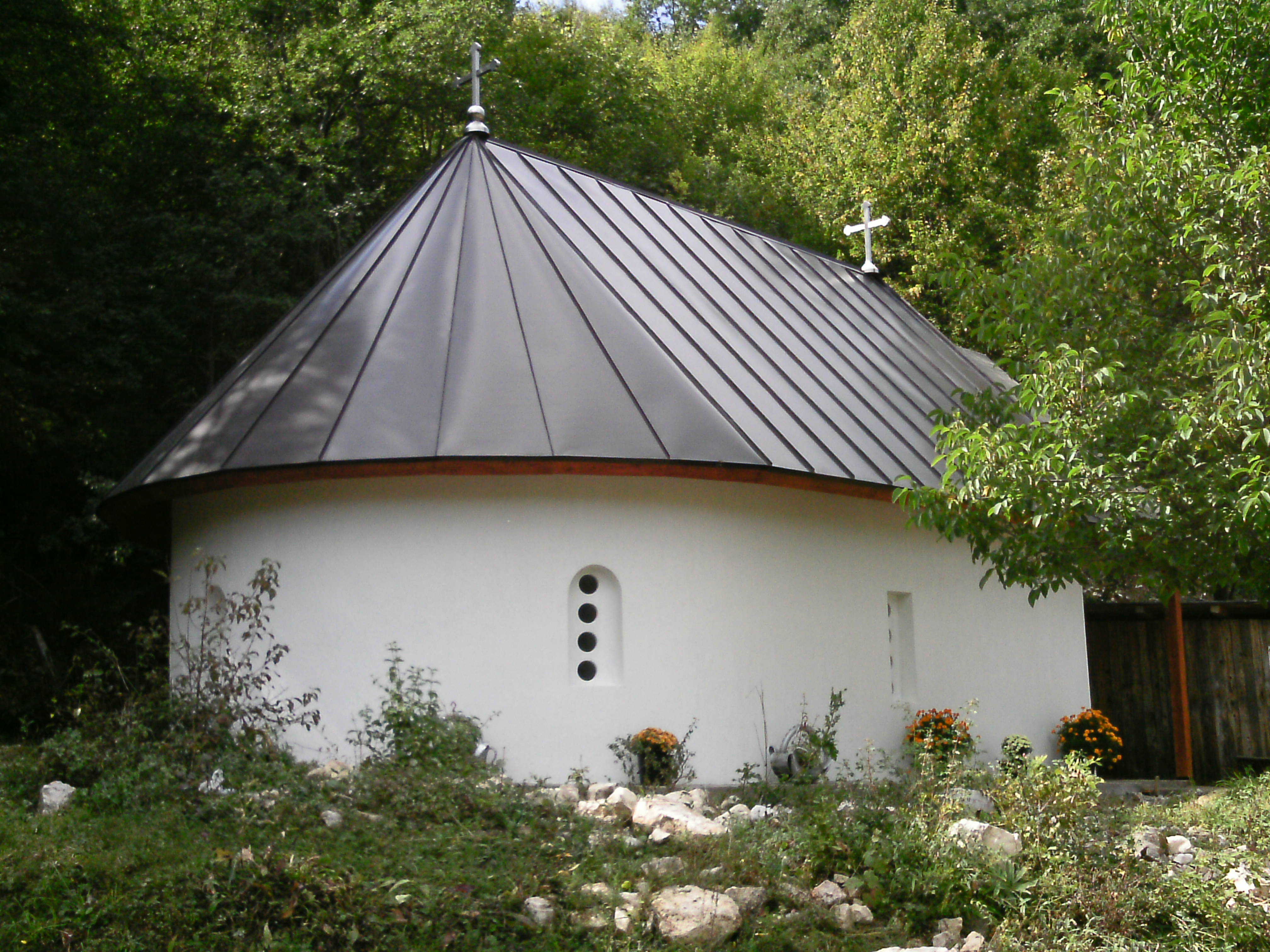 Manastir Janja, 28.02.2010.